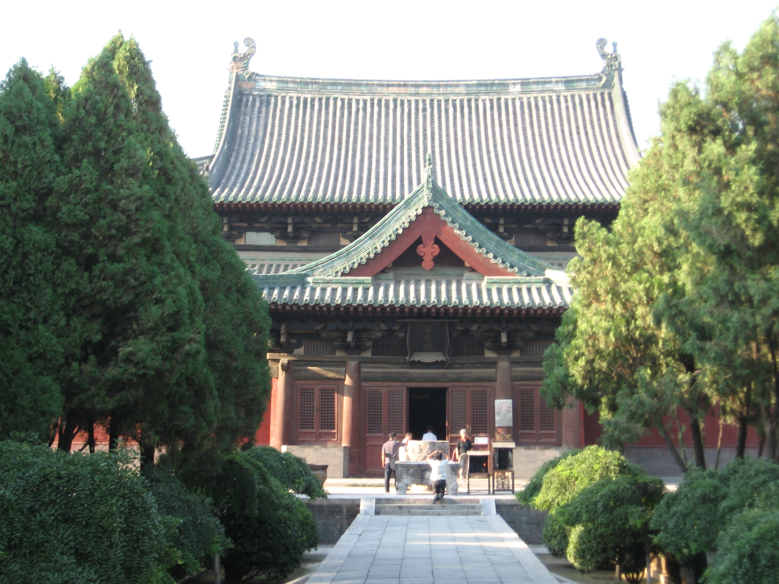 The Manichaean Hall of Longxing temple in Zhengding Hebei,China.